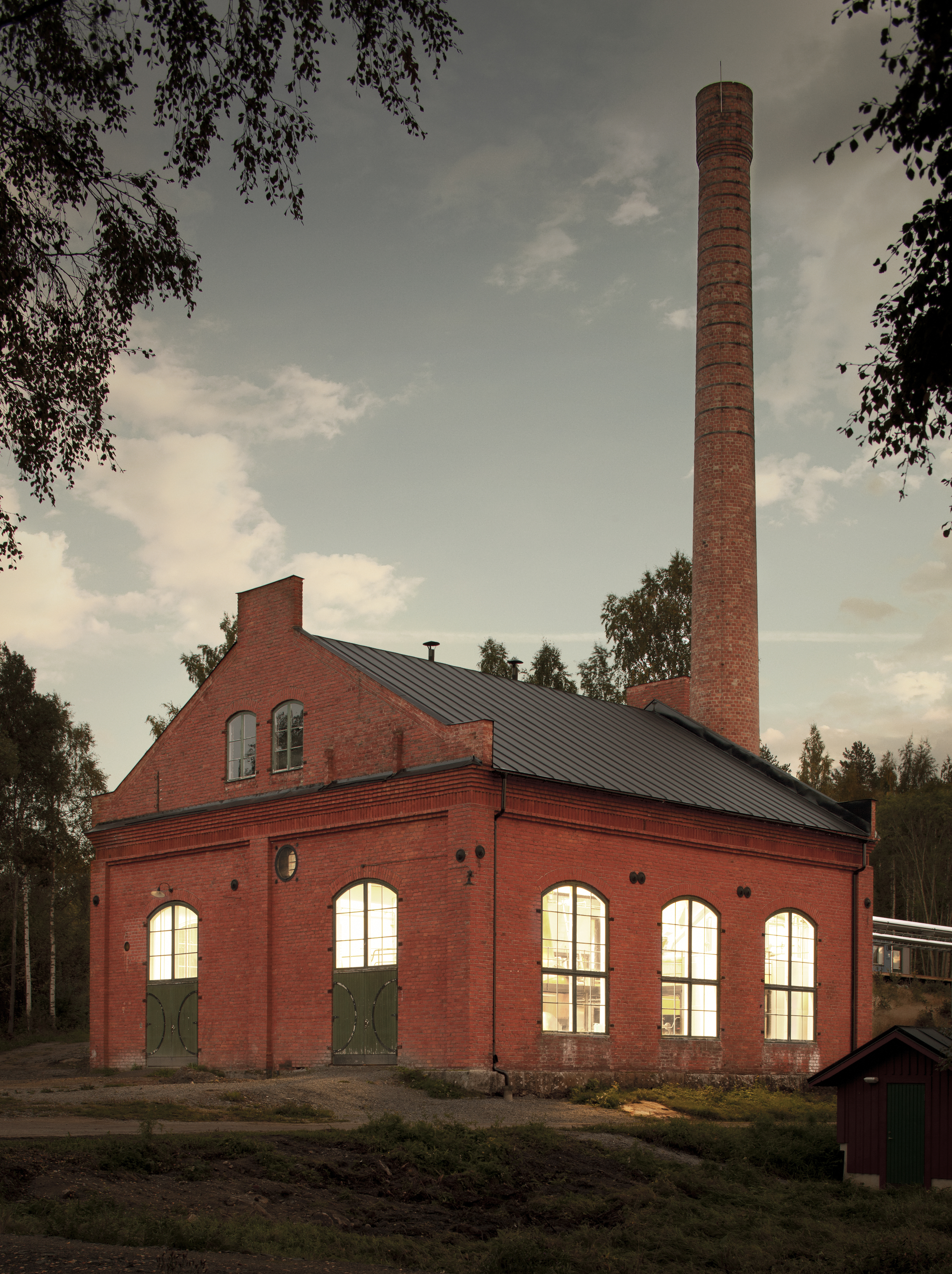 The distillery building at Box Distillery. Former engine house built in 1912.